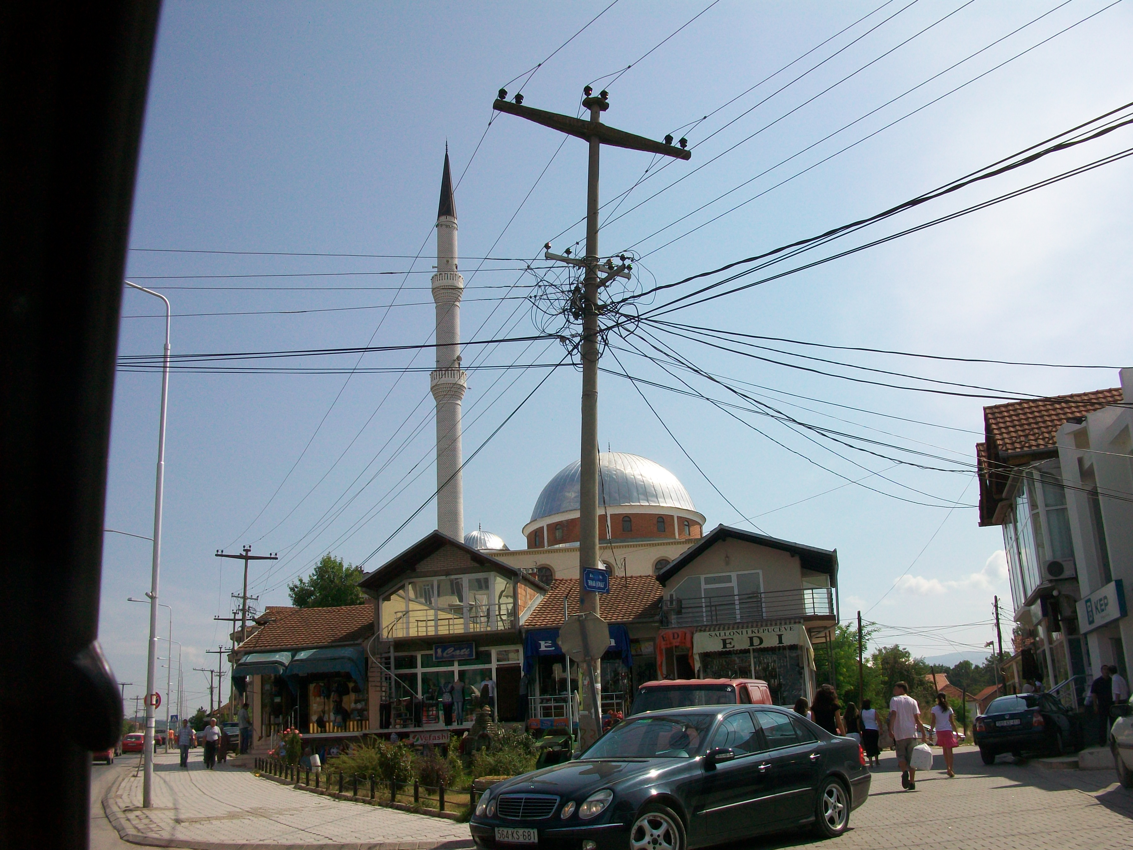 Pictures from Prizren Kosovo